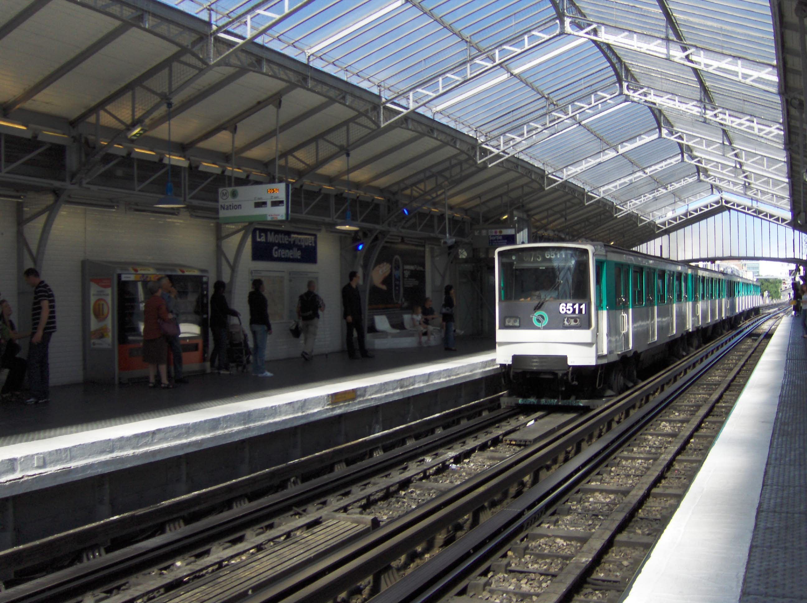 An MP 73 train pulling into La Motte-Picquet - Grenelle station on line 6.